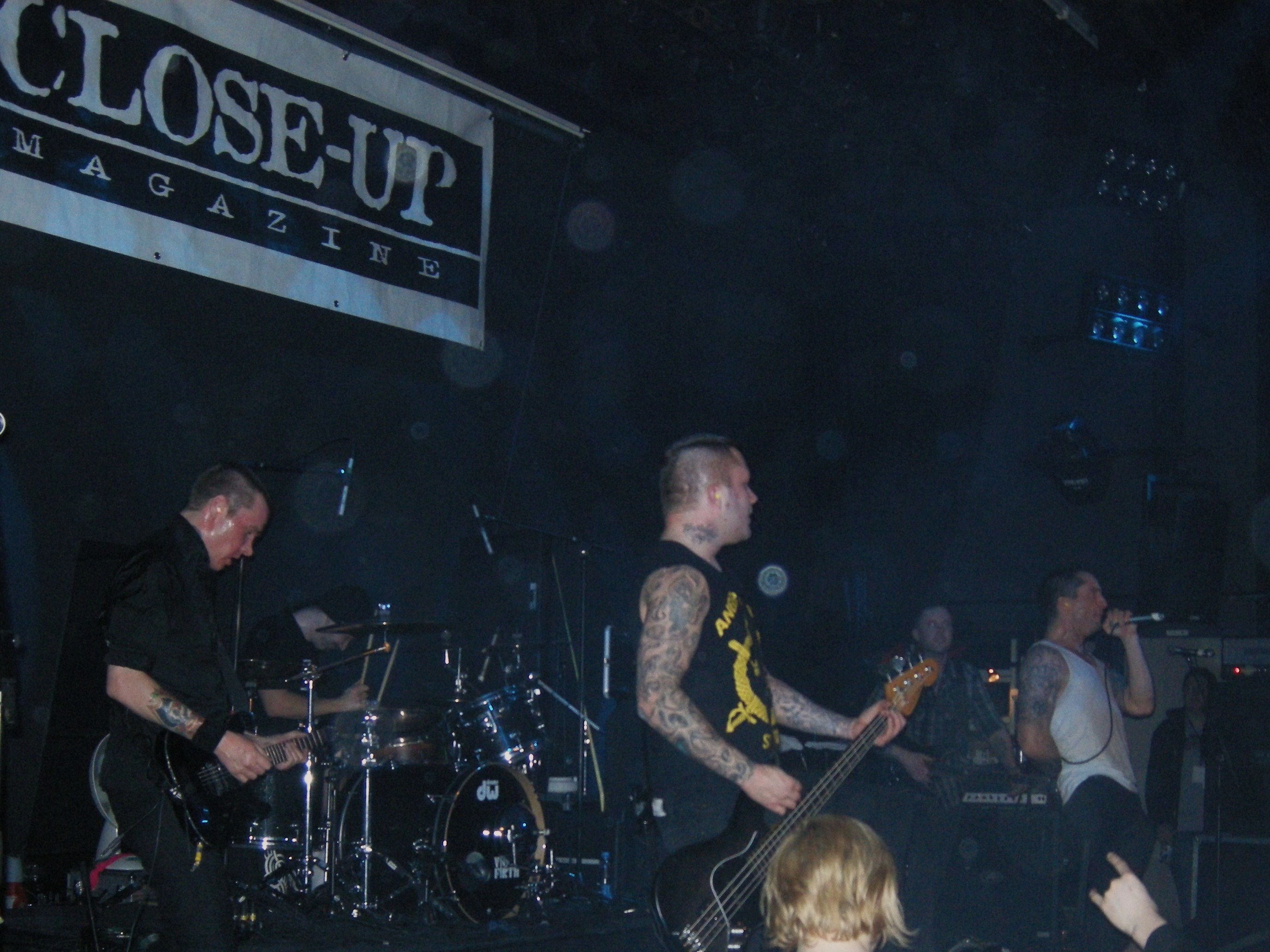 Swedish hardcore band Raised Fist at The Close-Up boat February 2011